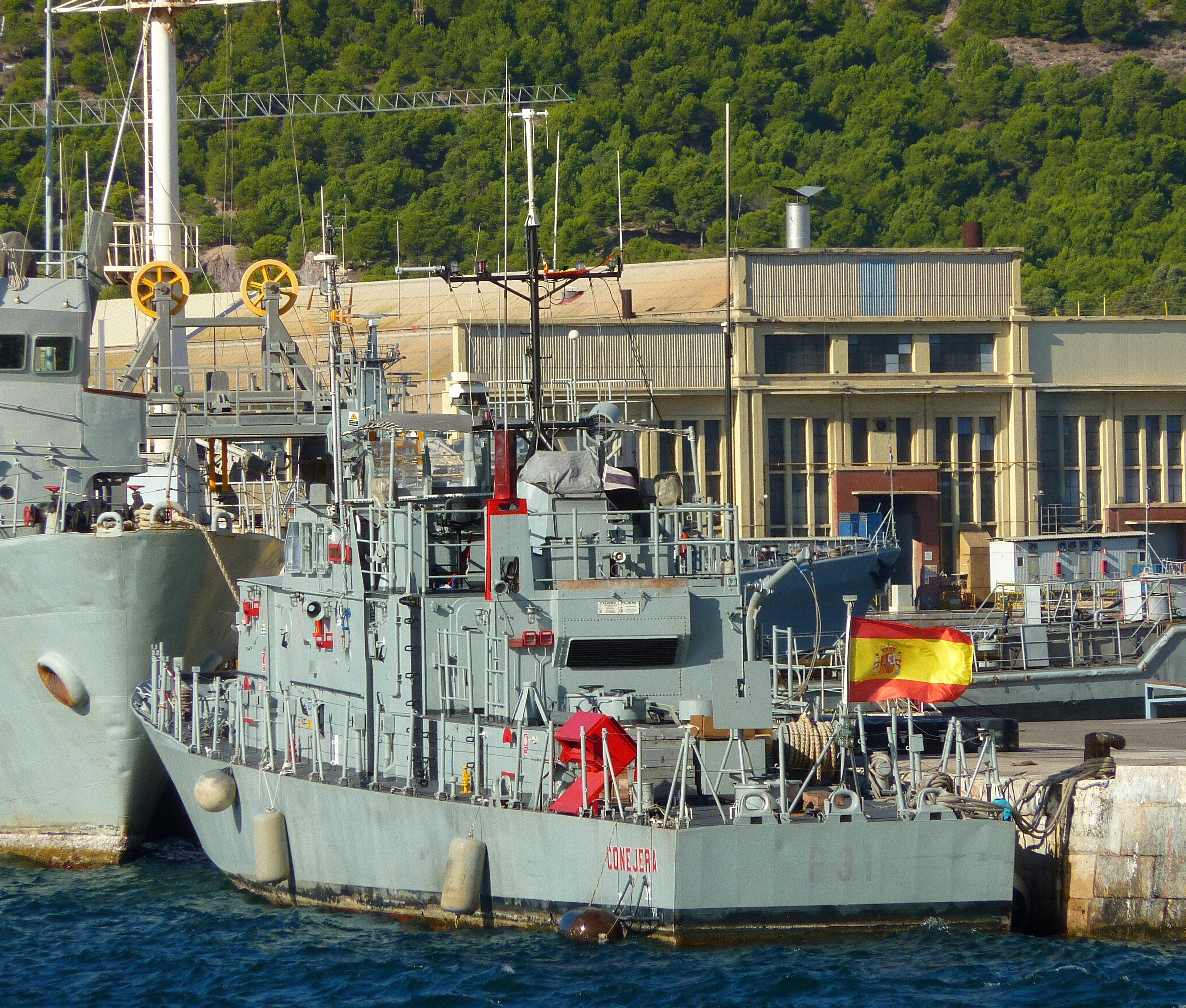 Conejera class patrol ship "Conejera", P-31, of the Spanish Navy.